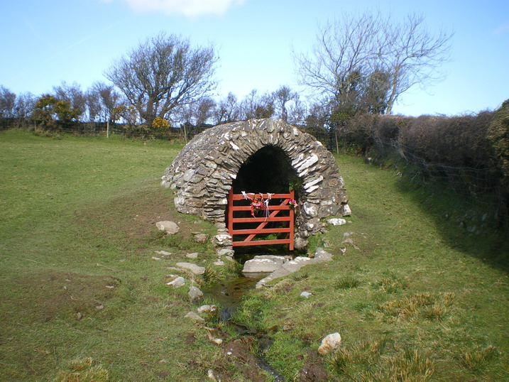 Llanllawer Holy Well and the issuing stream